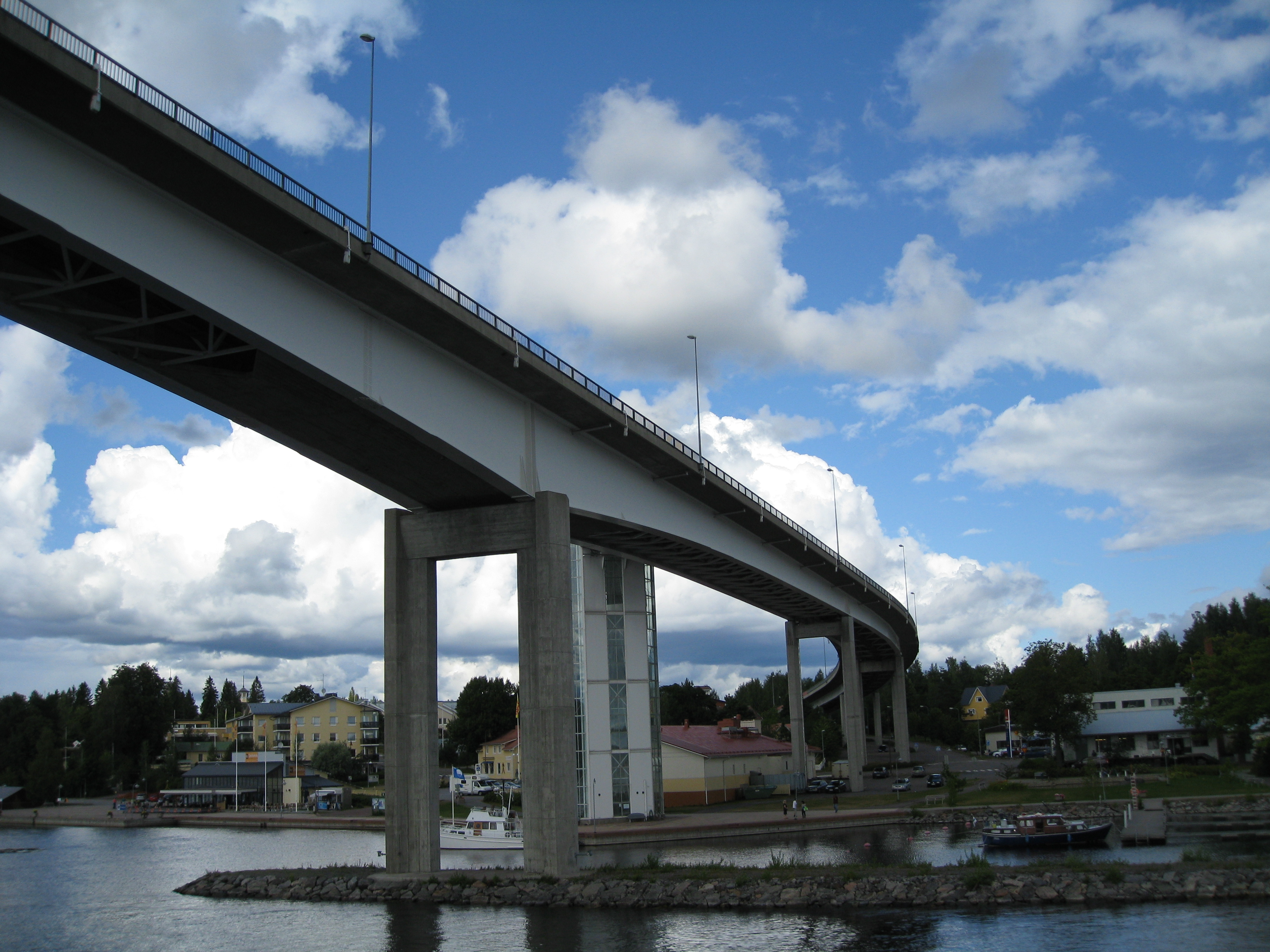 Saimaa Bridge in Puumala, Finland